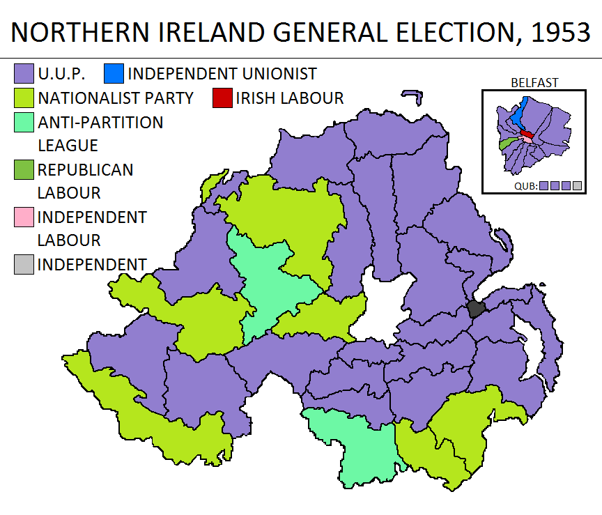 Map showing result of the 1953 Northern Ireland general election.